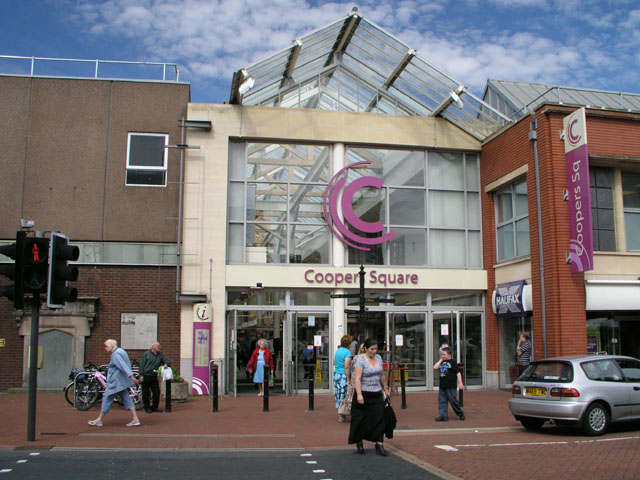 Entrance to Coopers Square, near to Stapenhill, Staffordshire, Great Britain. On the High Street opposite SK2522 : Burton Market . On my map the glass-roofed area is shown as open space so was it originally open to the air?